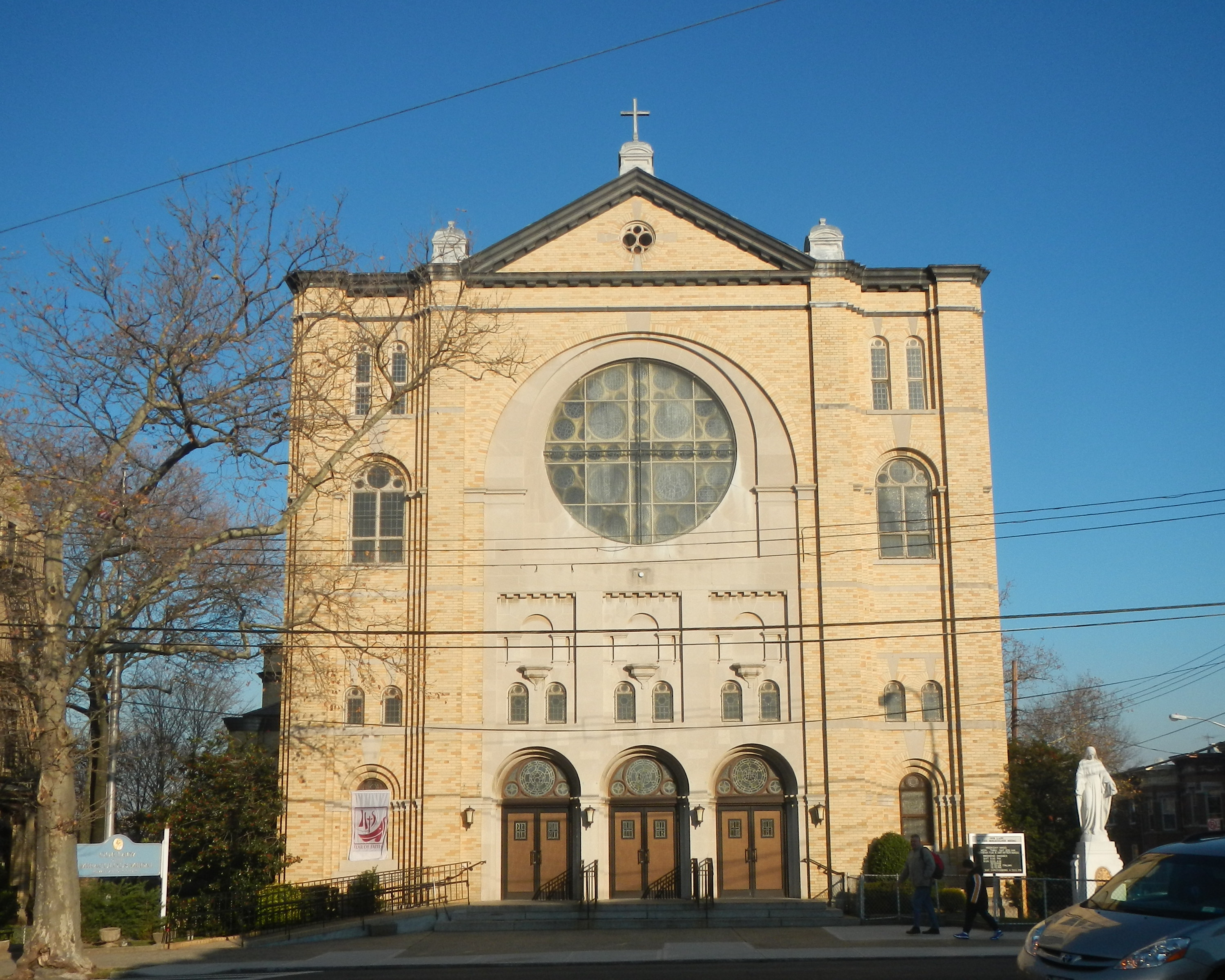 Looking northeast at Our Lady on a sunny afternoon.